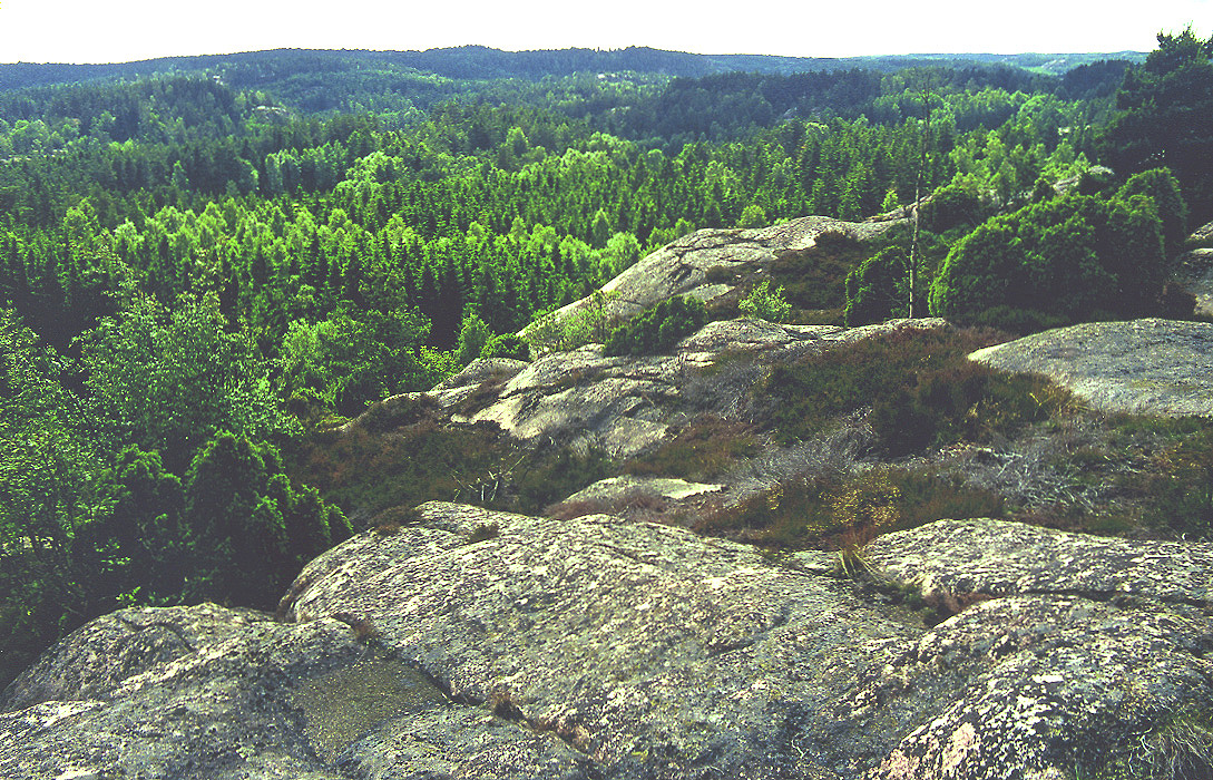 Landscape of Bohuslän, Sweden